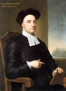 Portrait of George Berkeley